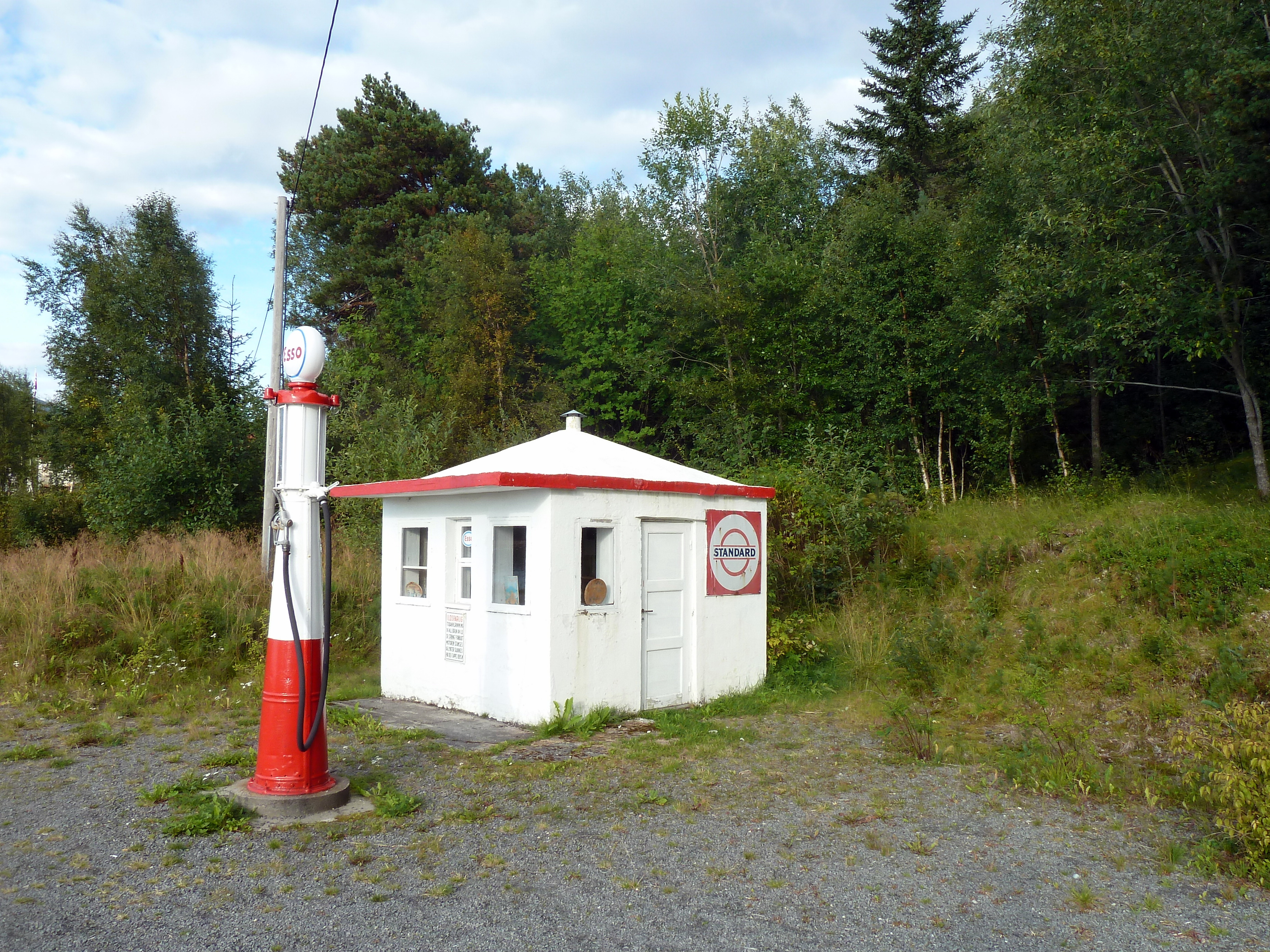 Old, un-used but restored, Esso petrol station, built 1946, placed next to E6 in Sørkil, north of Ulvsvåg, in Hamarøy, Nordland, Norway.